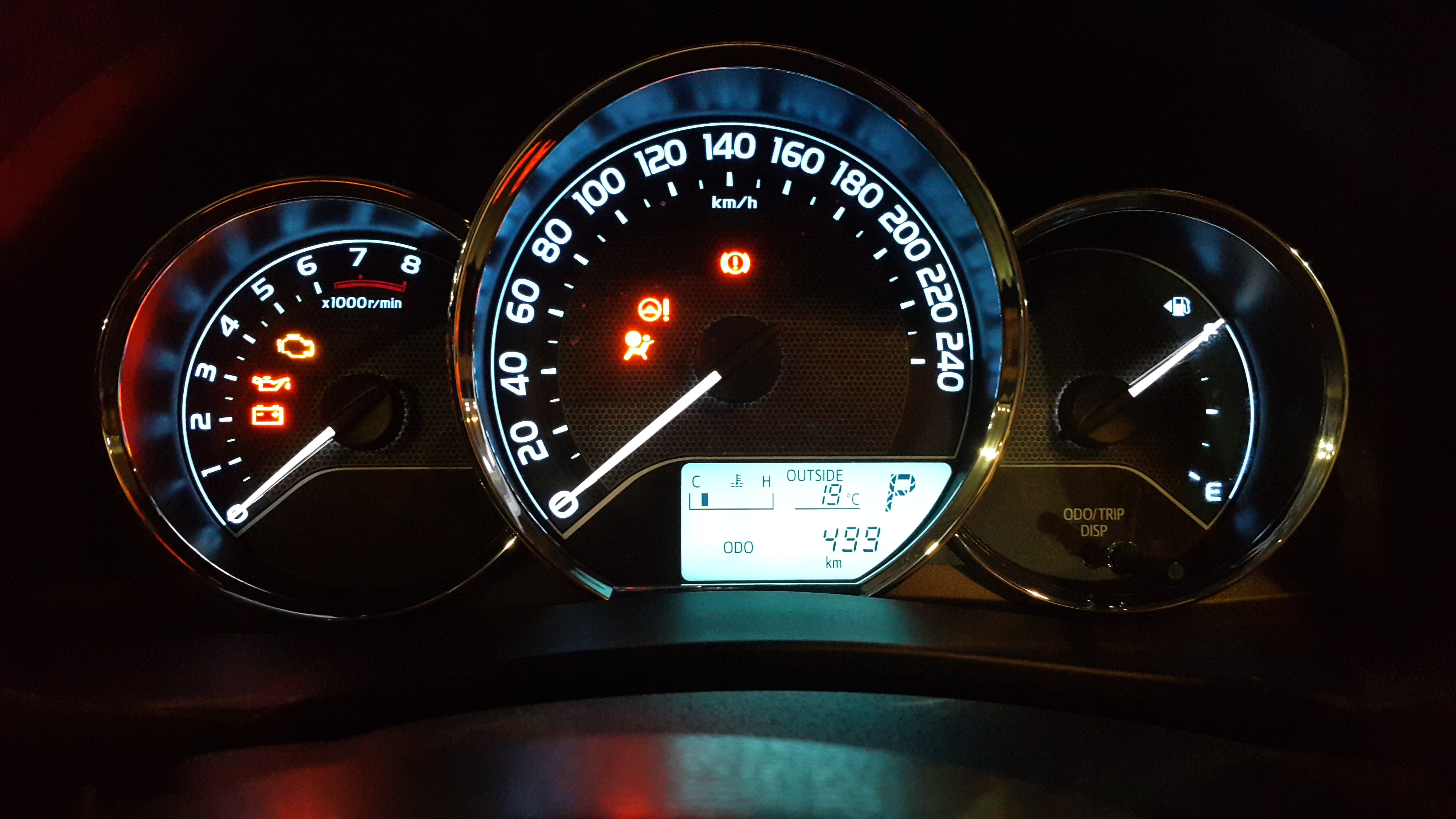 A modern Toyota Corolla 2016 speedometer plus odometer. This has trip option with thermometer option. Fuel option is also available.